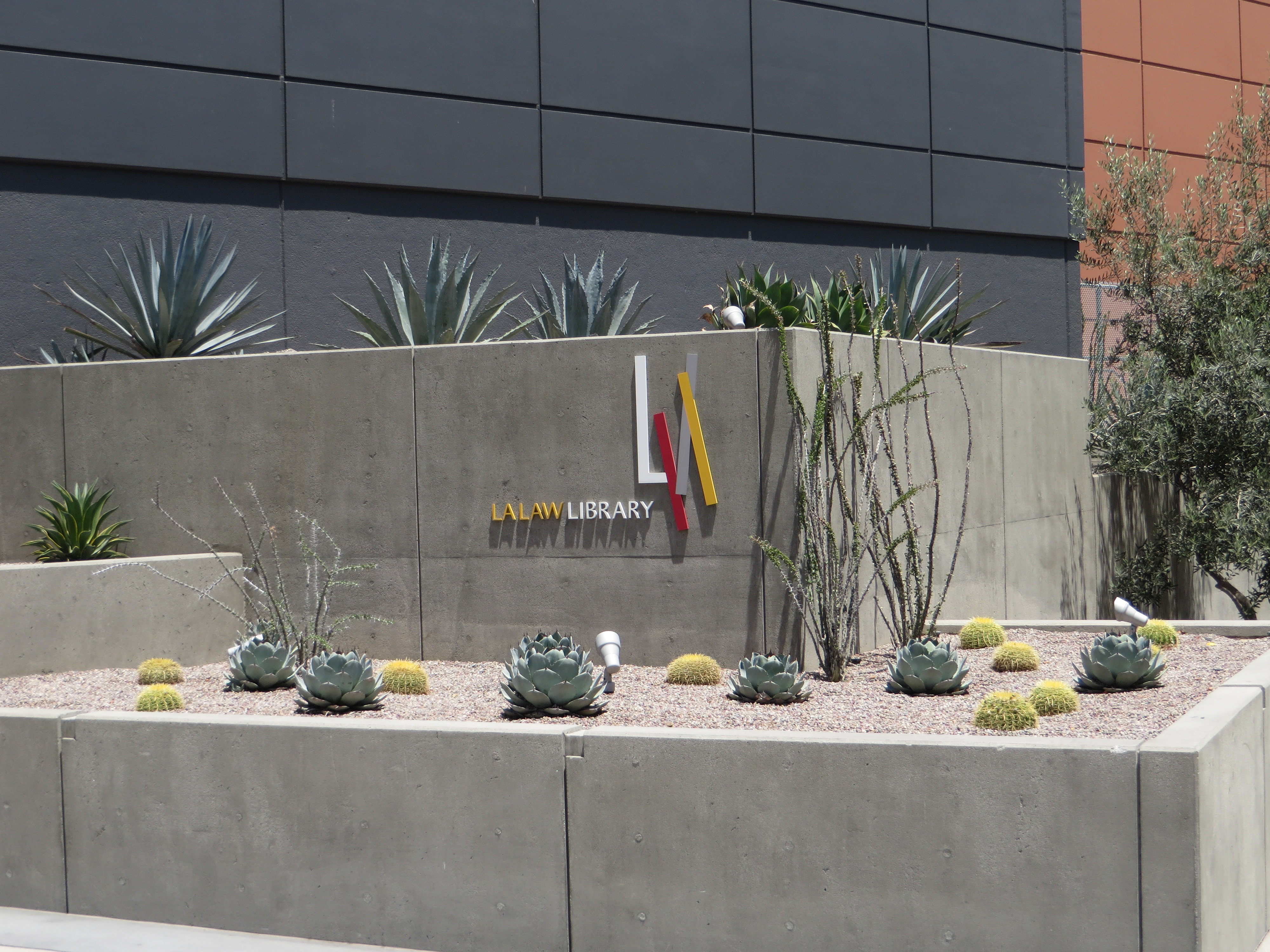 Entry to Los Angeles Law Library (LA Law Library), Los Angeles, California